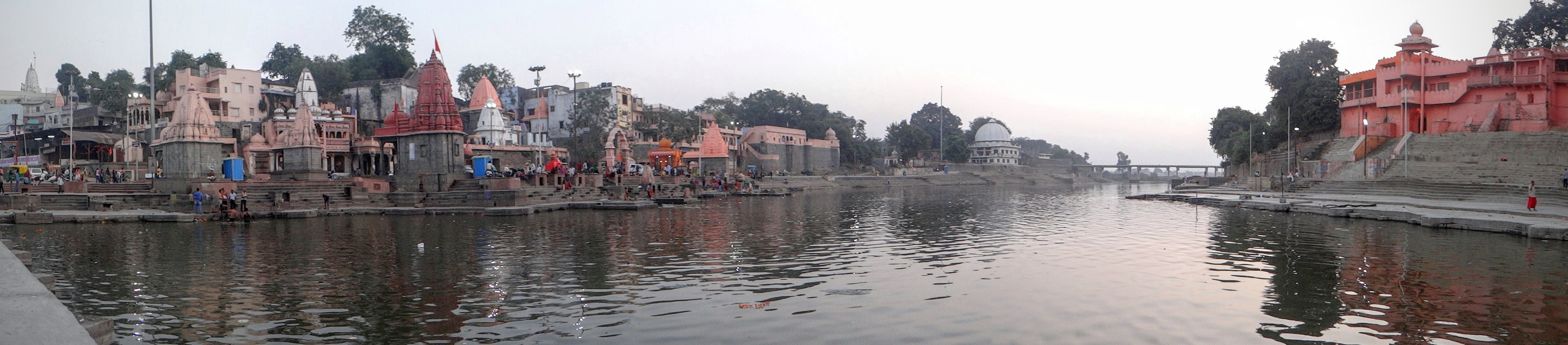 Panorama picture of Ram Ghat